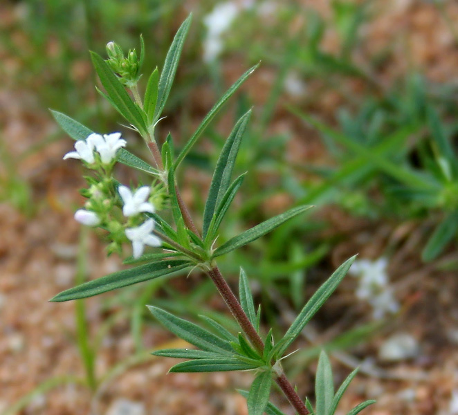 Houstonia nigricans (Lam.) Fern (Syn. Hedyotis nigricans (Lam.) Fosb.) in Keesara, Rangareddy district, Andhra Pradesh, India.